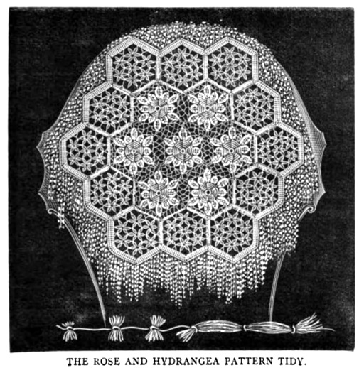 Picture to accompany crochet pattern in Victorian ladies' magazine - by Eliza Warren